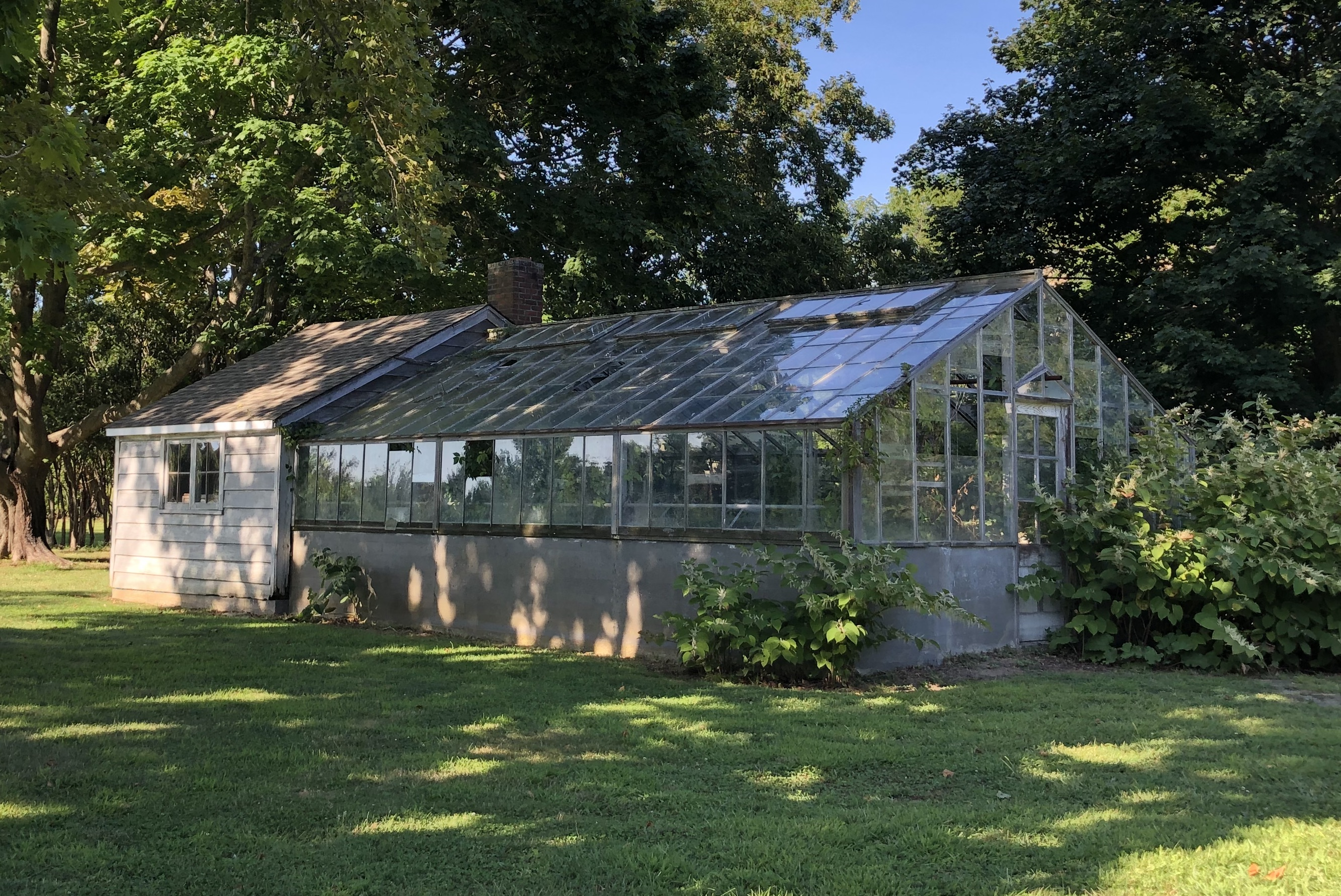 Photo of early 20th century Brecknock greenhouse